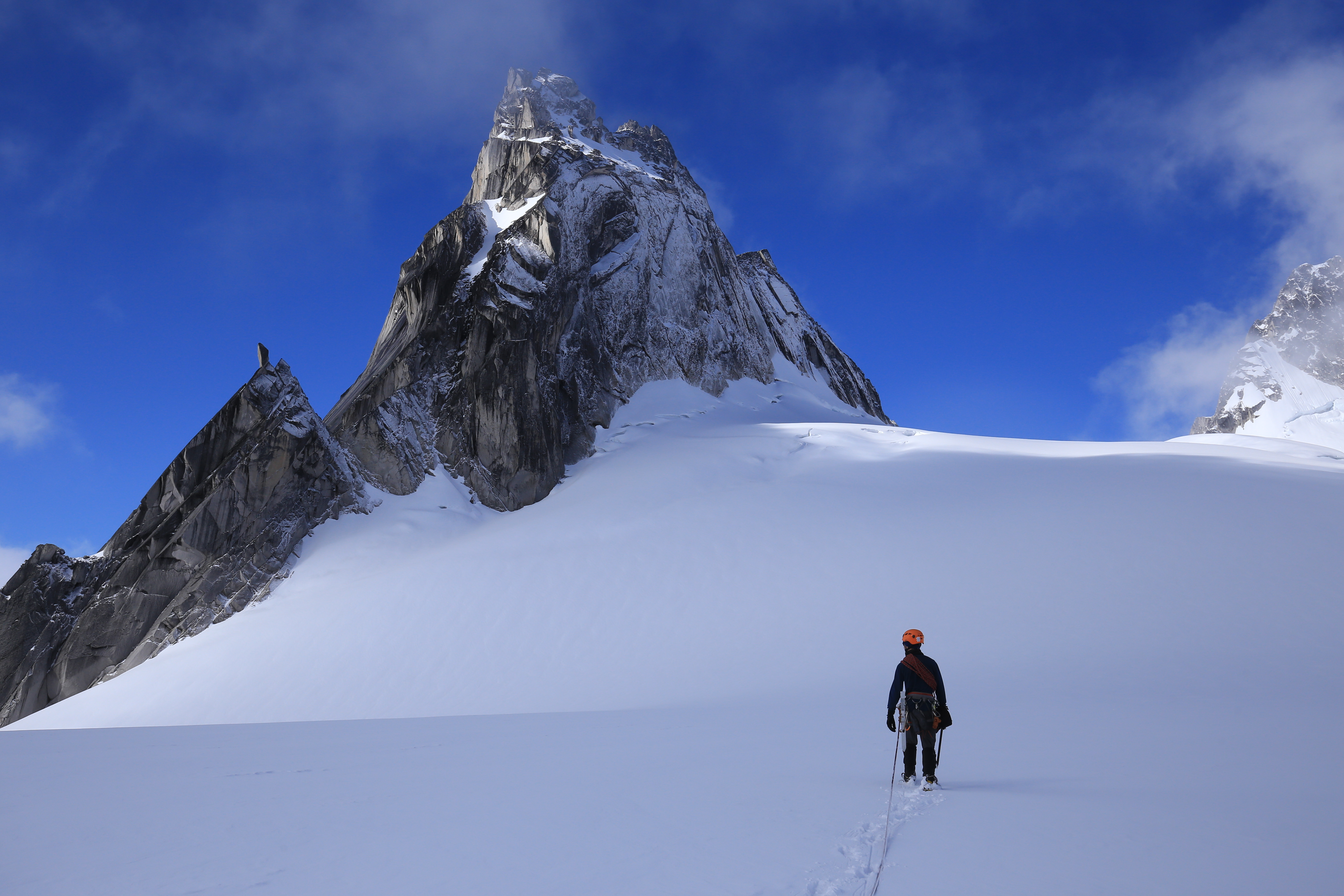 Mountaineering in the The Bugaboos in British Columbia, Canada. The mountain in the frame is Pigeon Spire.